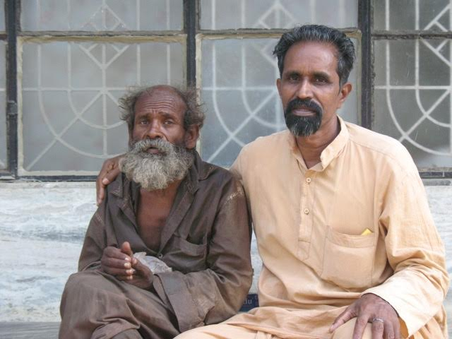 U C Paulose with Ashrama inmate